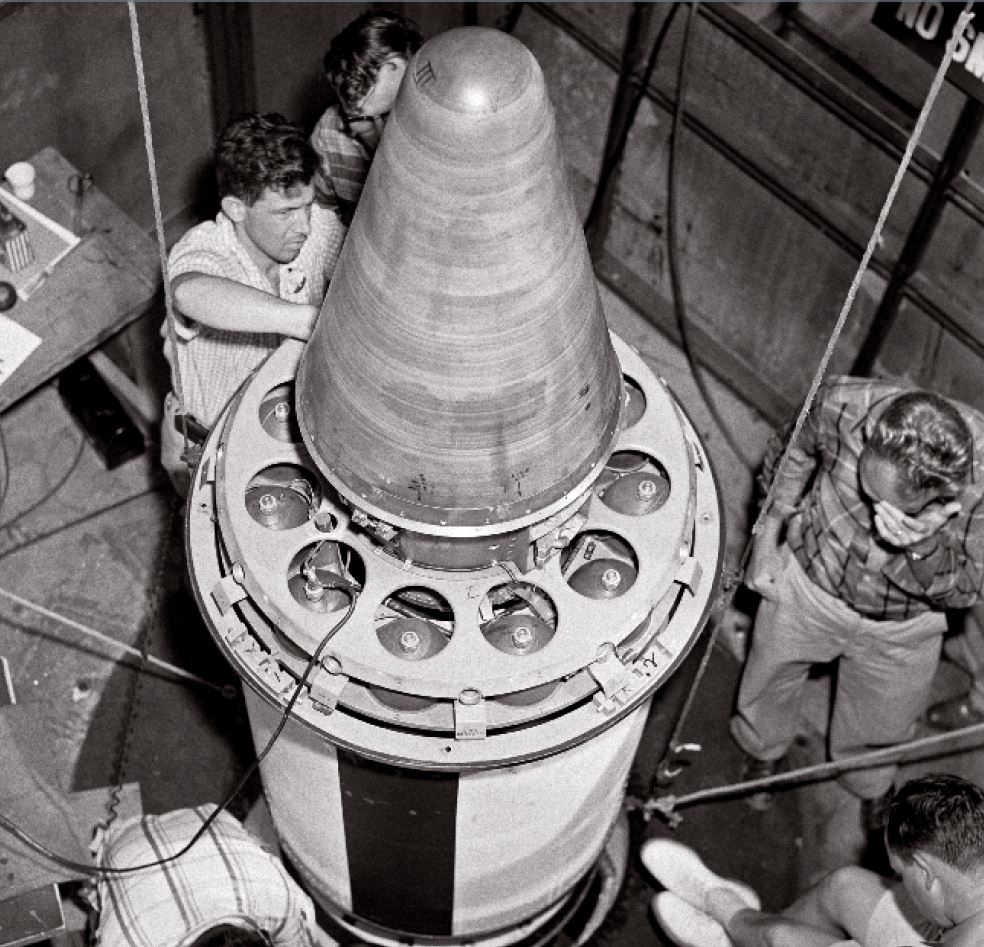 Spurned in their bid to launch a scientific satellite, the JPL–Army team turned their attention to testing a heat shield for reentering missile warhead (1957)